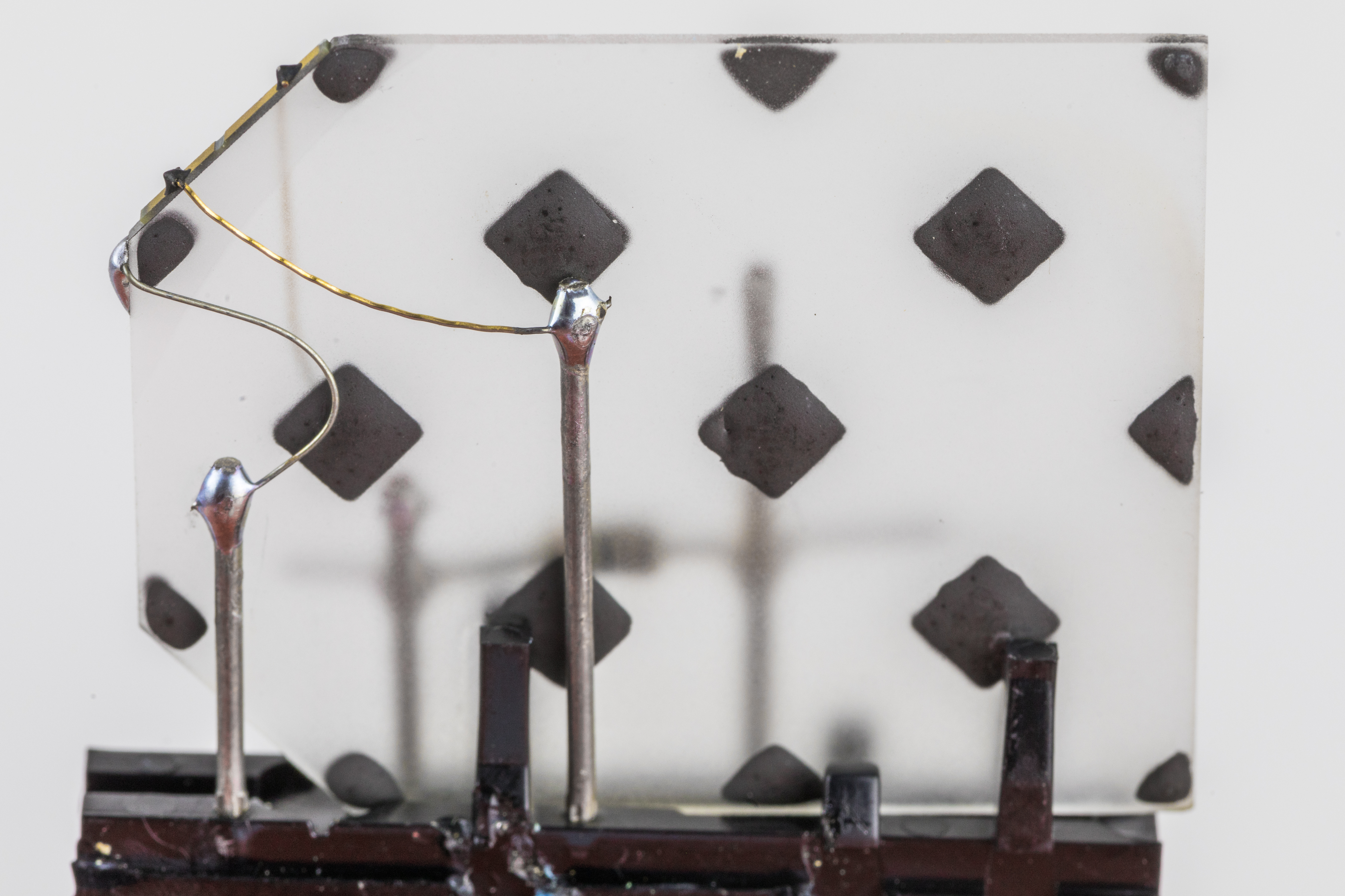 Profitronic VCR7501VPS - controller board - subboard - Philips CF 873